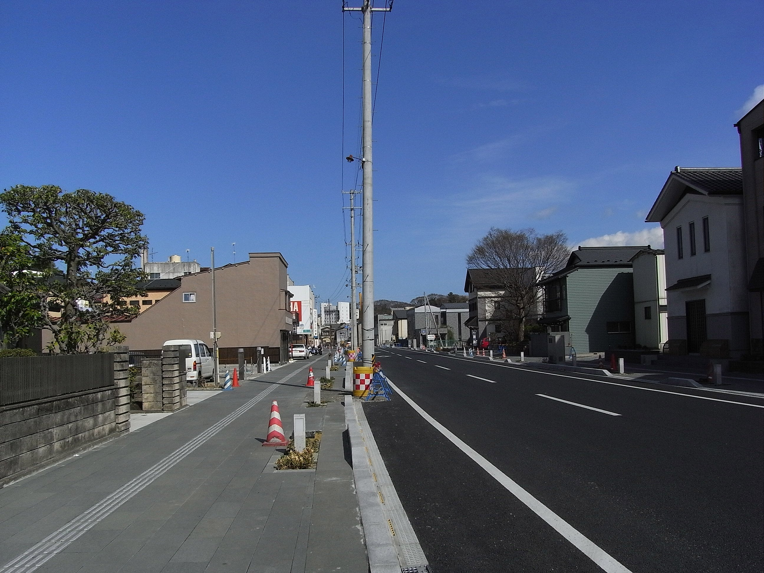 Miyagi prefectural Road 3, Shiogama-Yoshioka Line. Shiogama, Miyagi prefecture, Japan. Eastward from the foot of Shiogama-jinja (Shiogama Shrine). Carretera Prefectural 3, Shiogama-Yoshioka Line. Shiogama, la prefectura de Miyagi, Japón. Hacia este desde la falda del Shiogama-jinja (Sanrtuario de Shiogama).